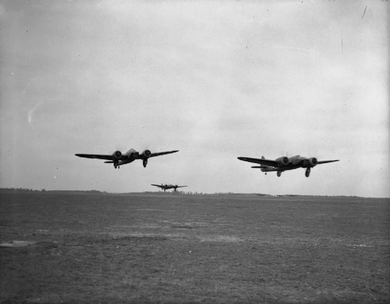 Royal Air Force- France, 1939-1940. Three Bristol Blenheim Mark IVs of No. 59 Squadron RAF take off from Poix.